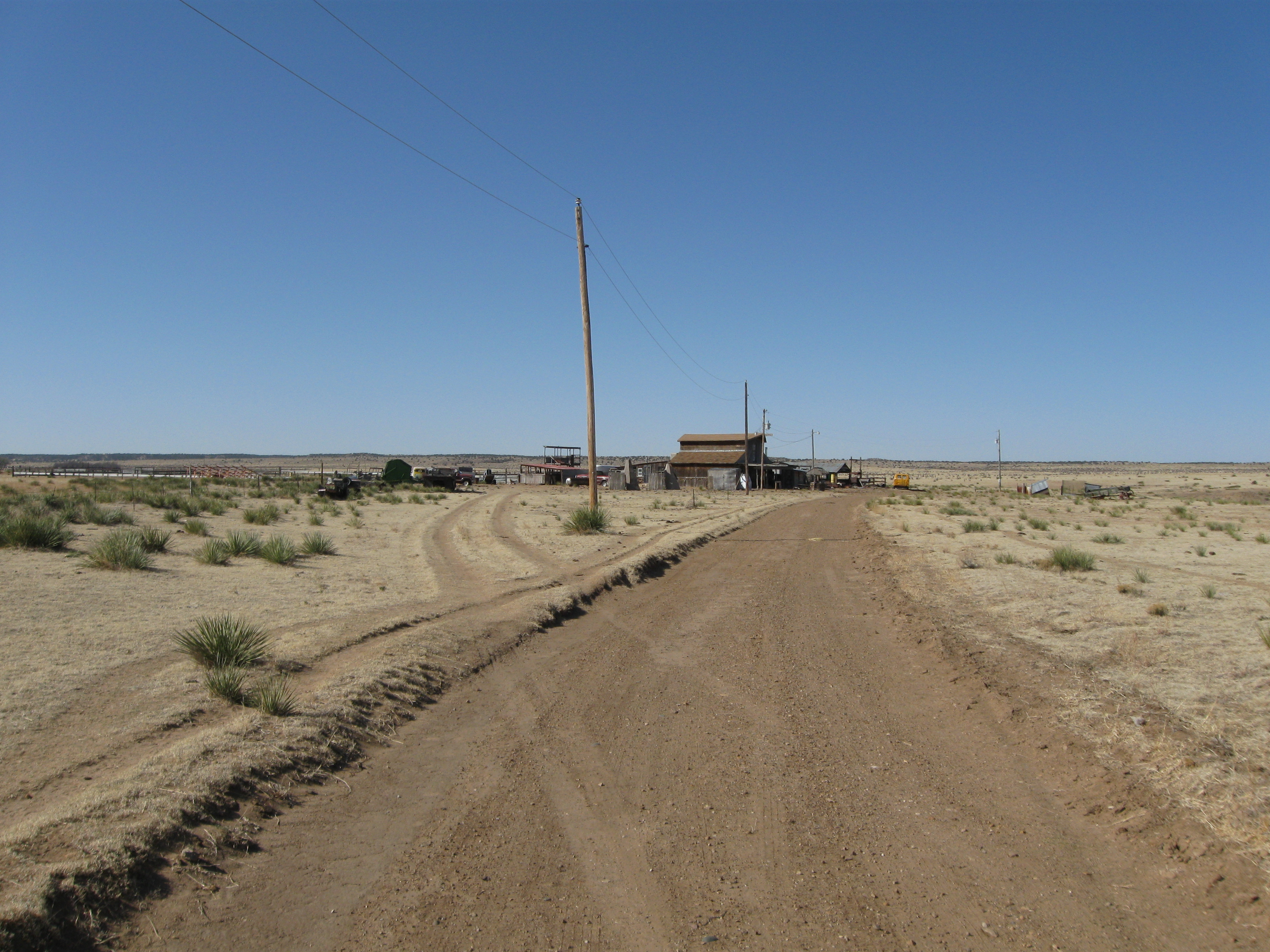 High Plains in Oklahoma near Black Mesa State park